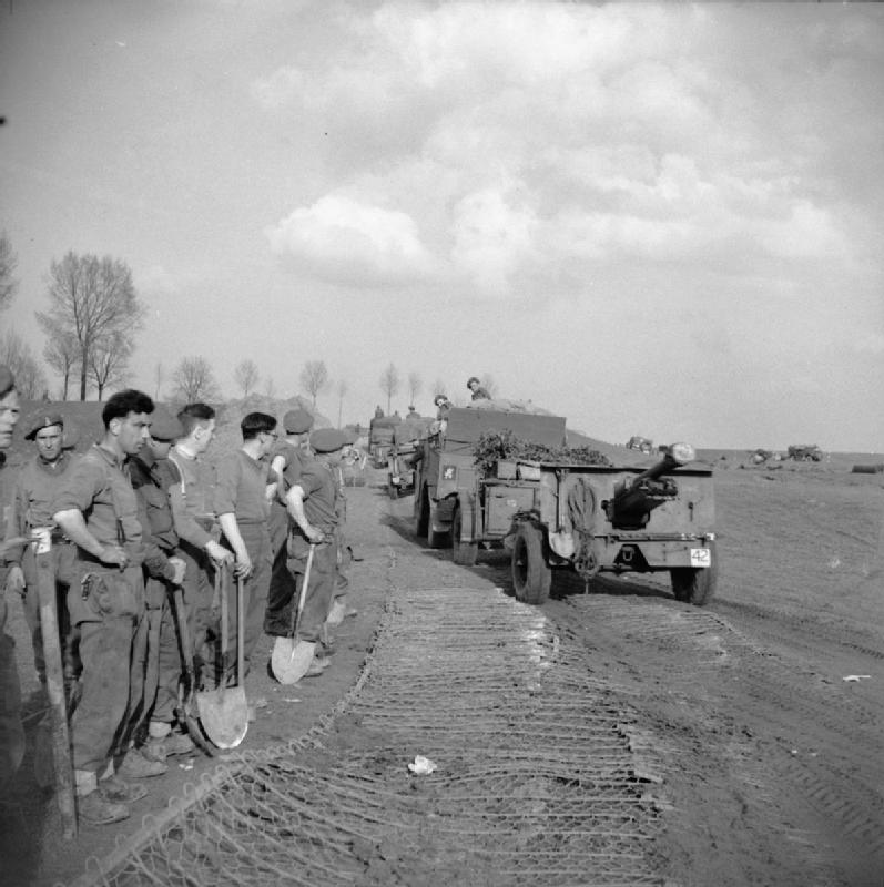 The British Army in North-west Europe 1944-45 Royal Engineer sappers watch 25-pdr field guns being towed towards 'Waterloo Bridge', a Bailey bridge over the Rhine, 27 March 1945.